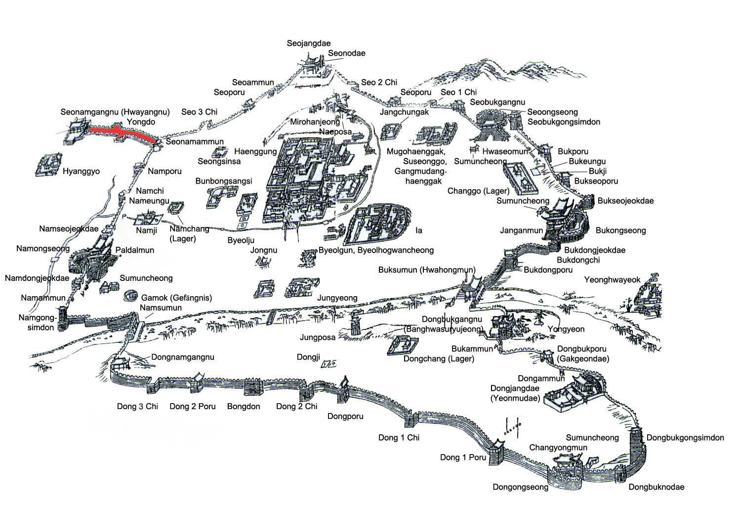 Drawing of the Hwaseong Fortress, from the Hwaseong Seongyeok Uigwe. Used in the Doo Won Cho thesis